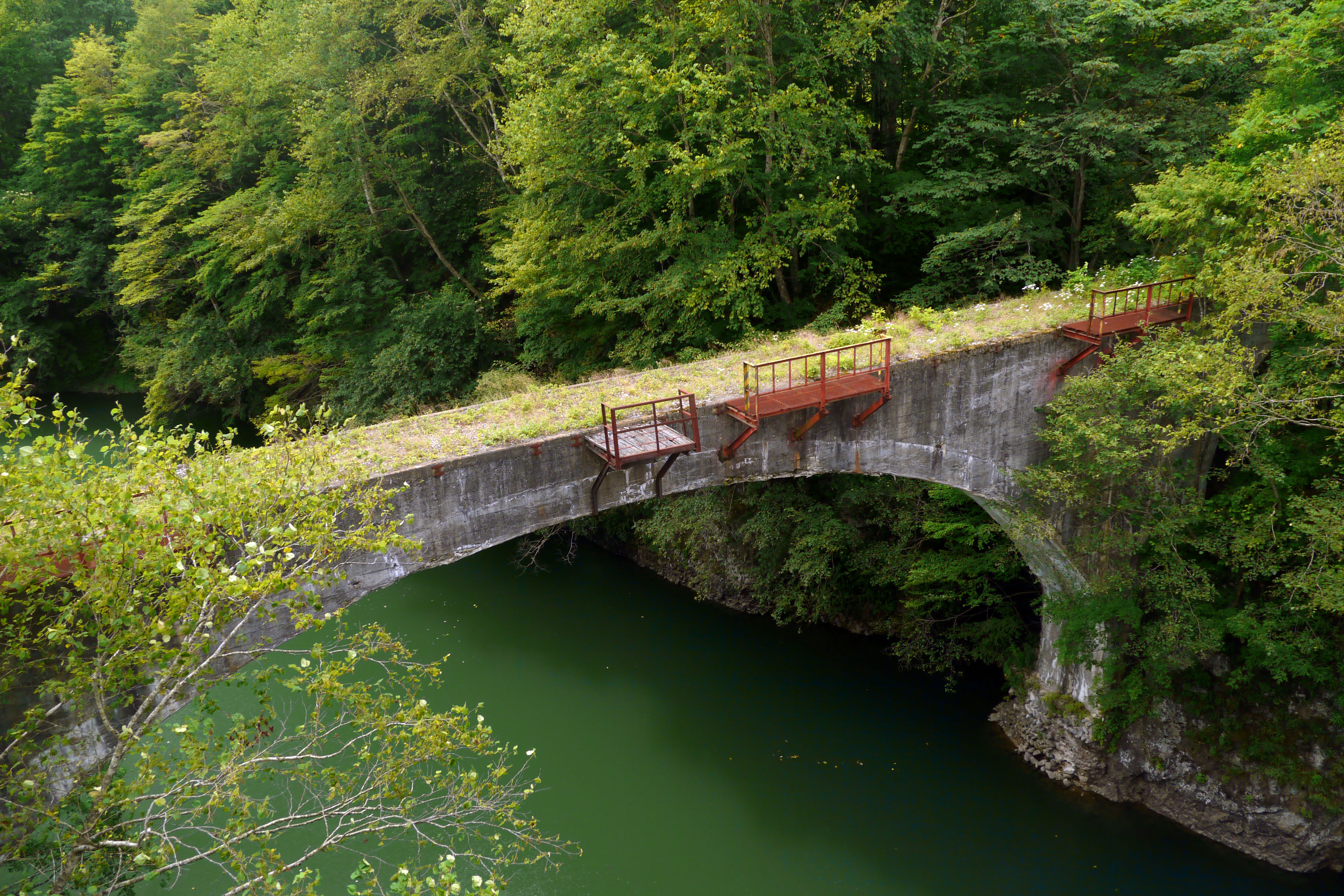 The Daisan Otofuke River Bridge on the Shihoro line. It has the longest concrete arch (32m) of all concrete rail bridges in Hokkaido.